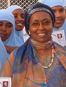 Edna Adan Ismail of the Edna Adan Maternity and Children's Hospital in Hargeisa, Somaliland.